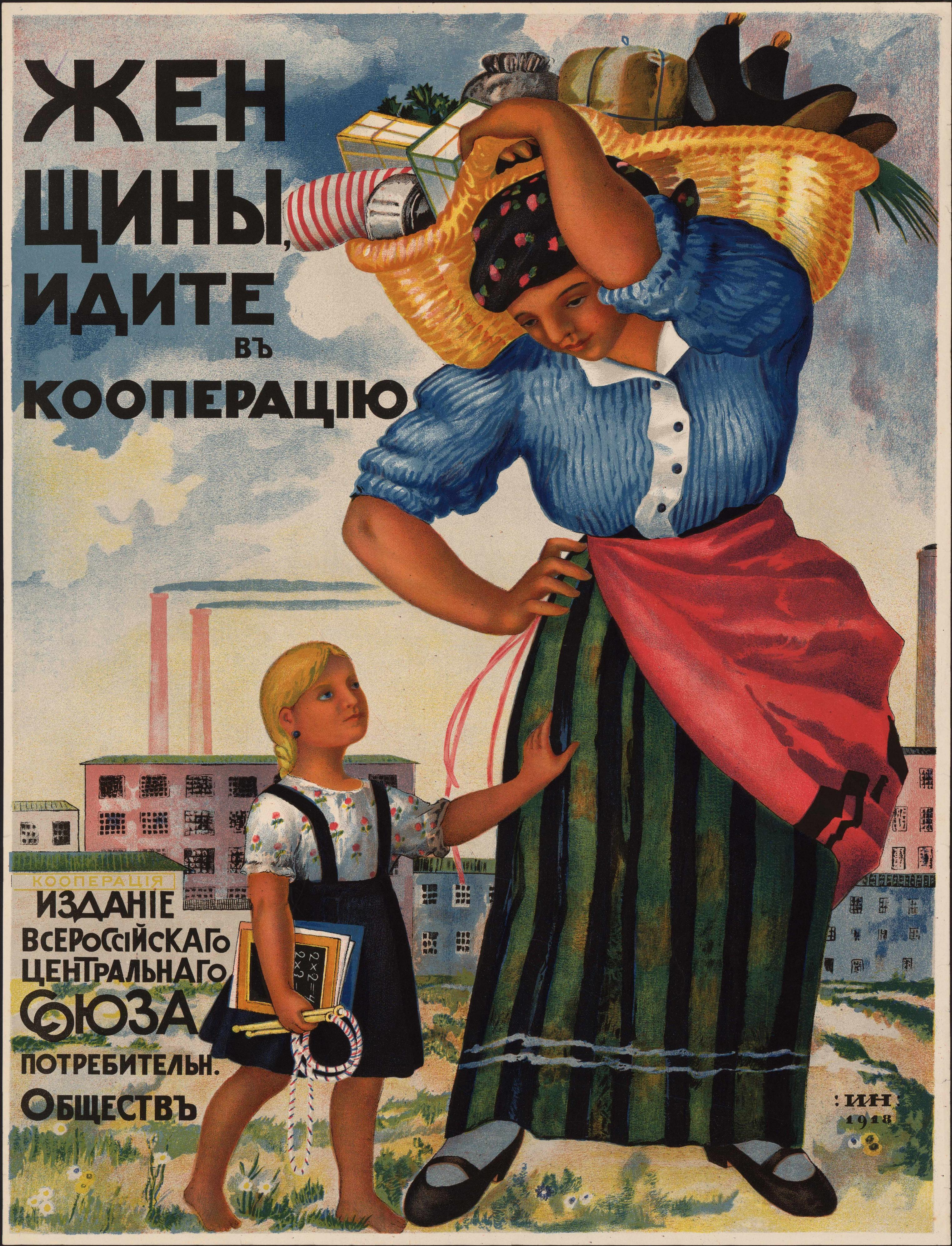 Women, Go into Cooperatives. (1918)